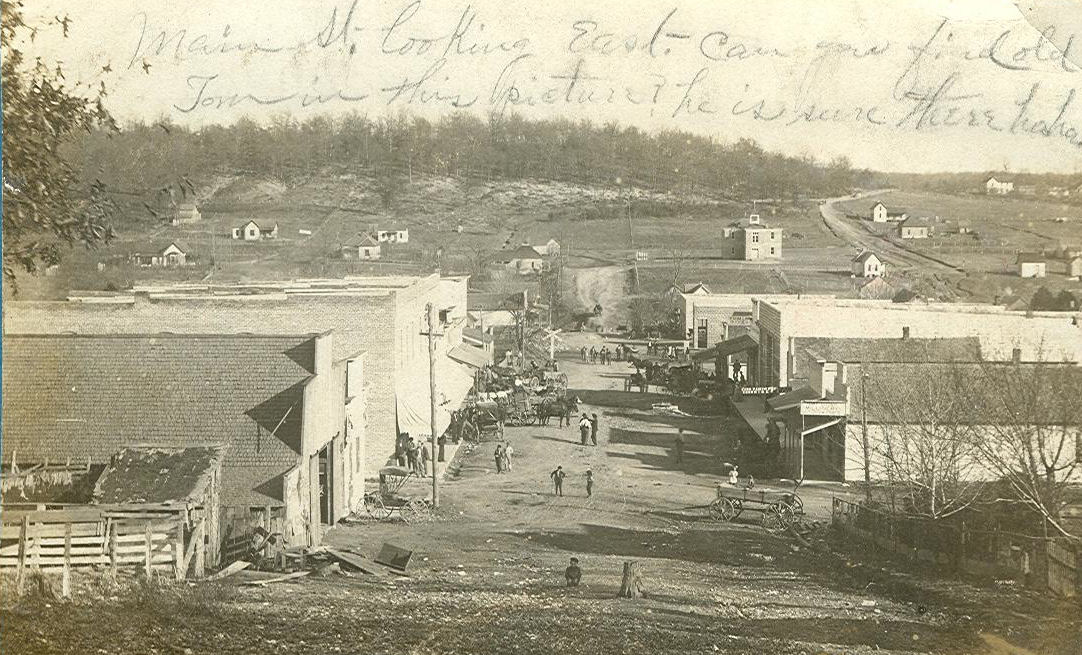 Scan from a postcard from 1907 of Anderson, Missouri. Photo is 100 years old, should be well within Public Domain.